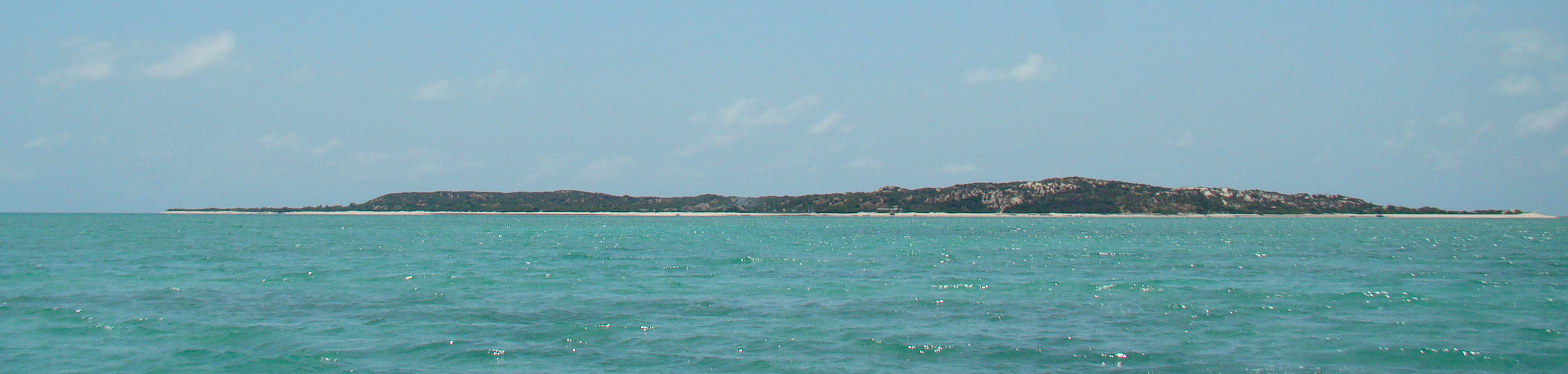 Magaruque Island seen from the west on a boat after leaving Vilankulo on the Mozambique mainland. The island is pretty much just a large sand dune peeking up from the Indian Ocean.